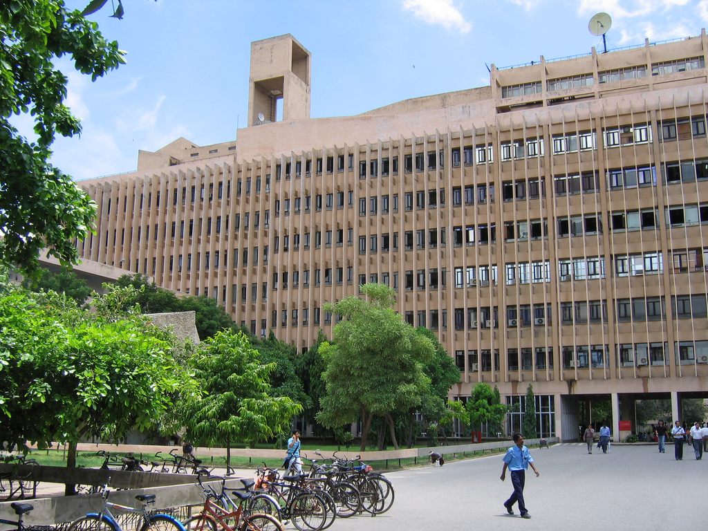 IIT Delhi